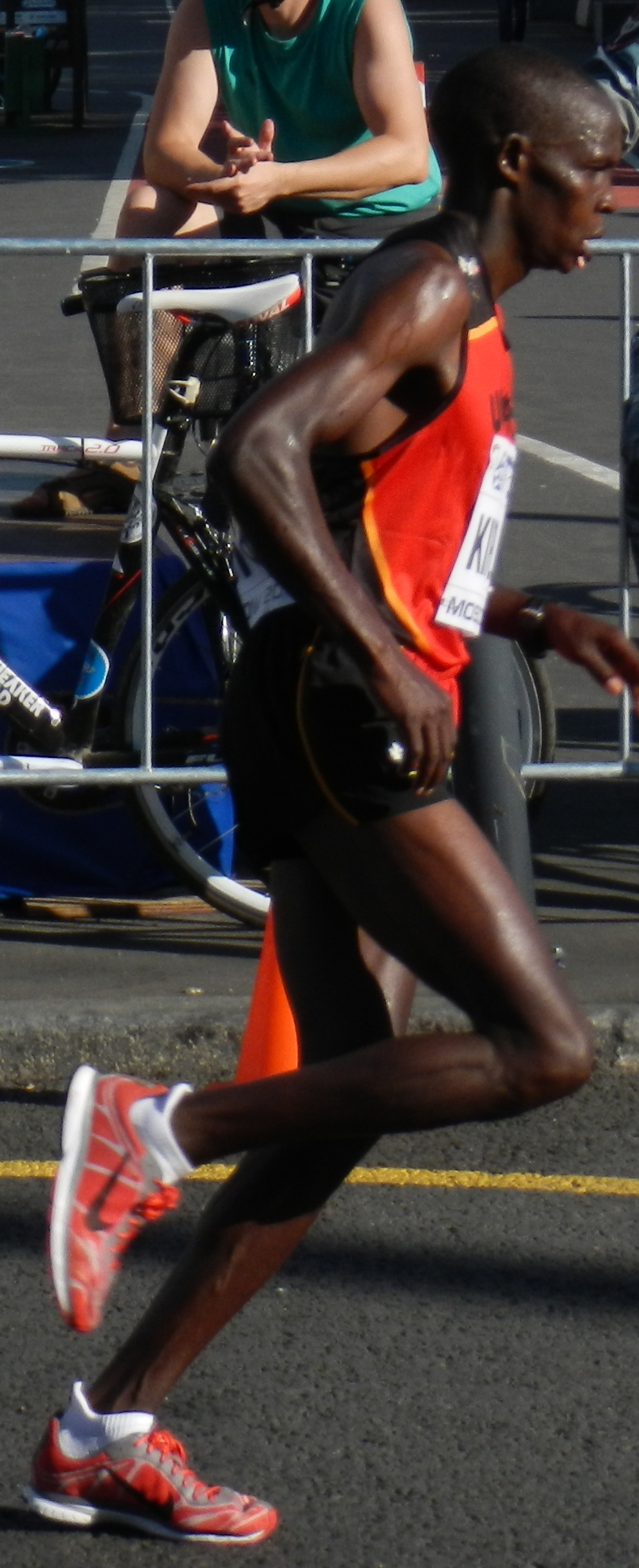 19 (1078) Abraham Kiplimo (Uganda) 2:16:25